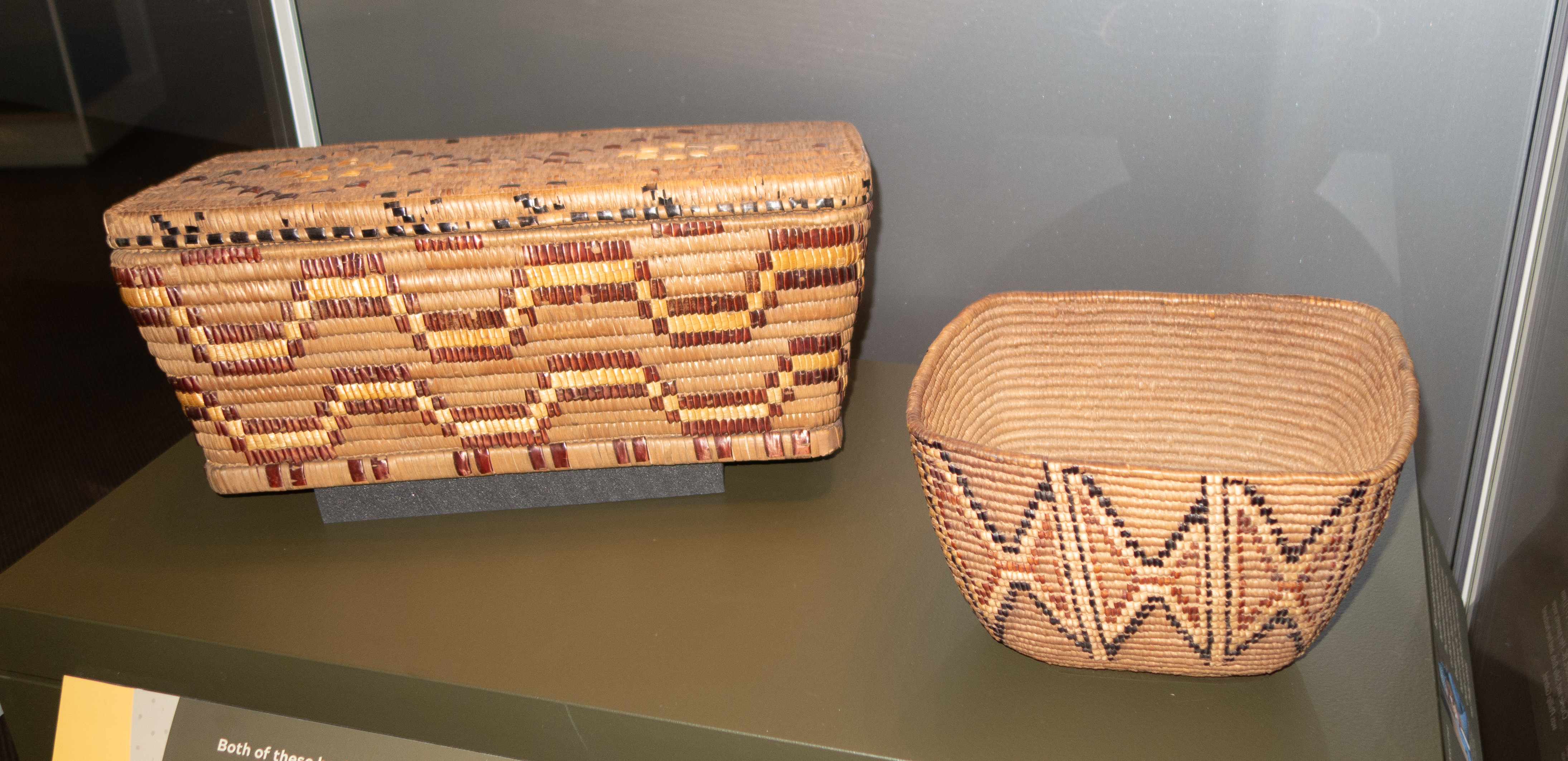 UBC, Museum of Anthropology, Vancouver, British Columbia, Canada, 2017